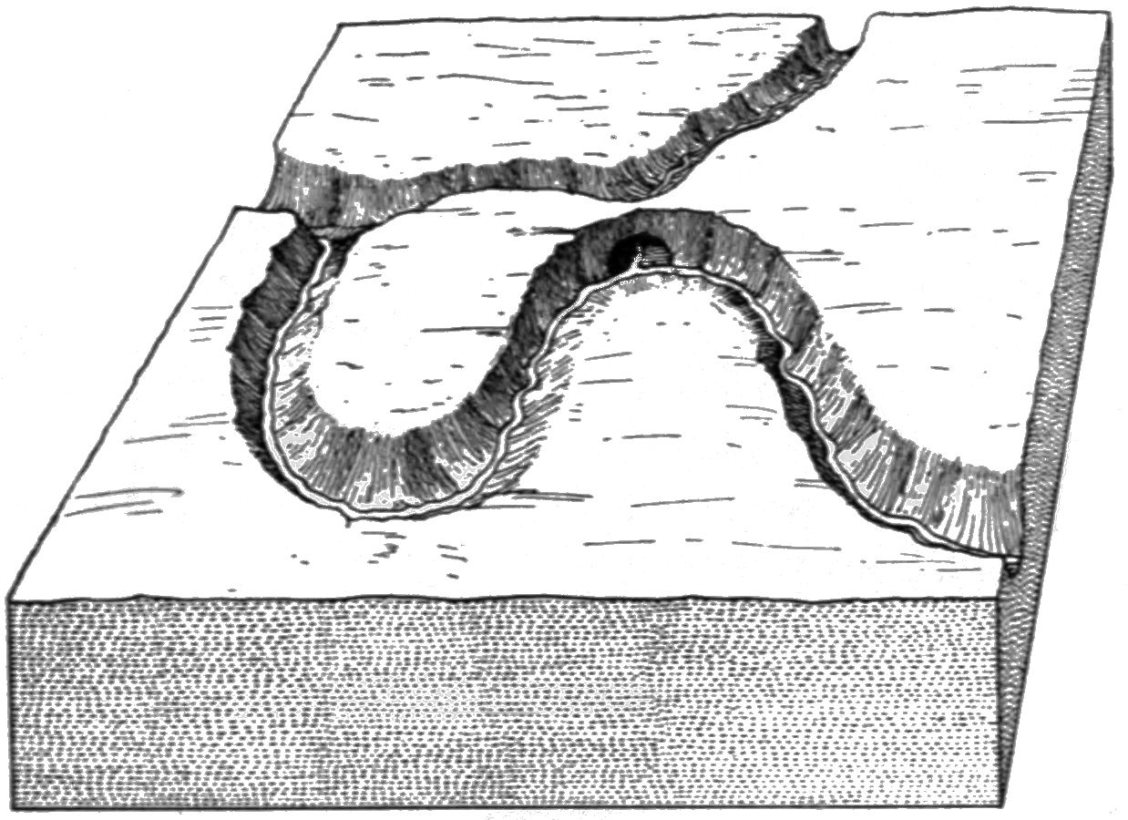 Natural bridge formation of an entrenched meander